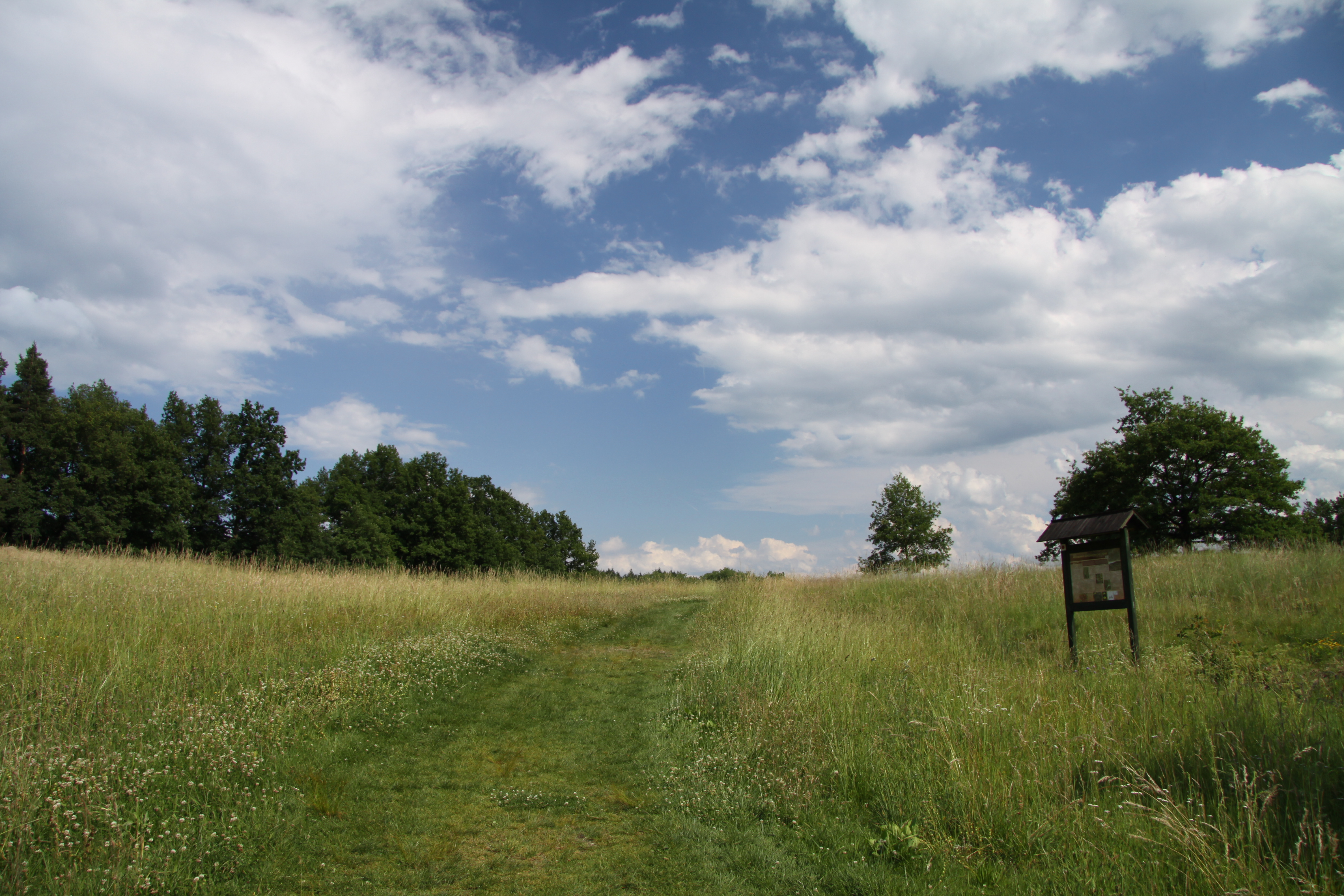 Meadow in national nature reserve Řežabinec a Řežabinecké tůně in Písek District, Czech Republic